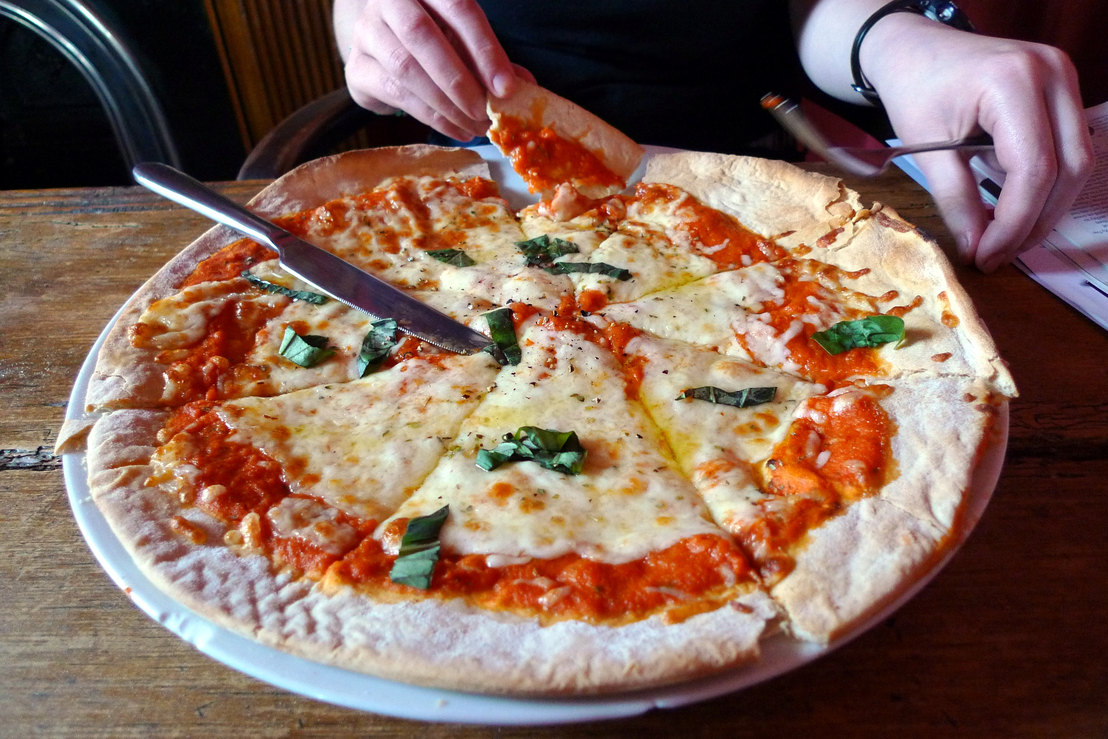 The basic margherita pizza. At The Fox, Kingsland Road.